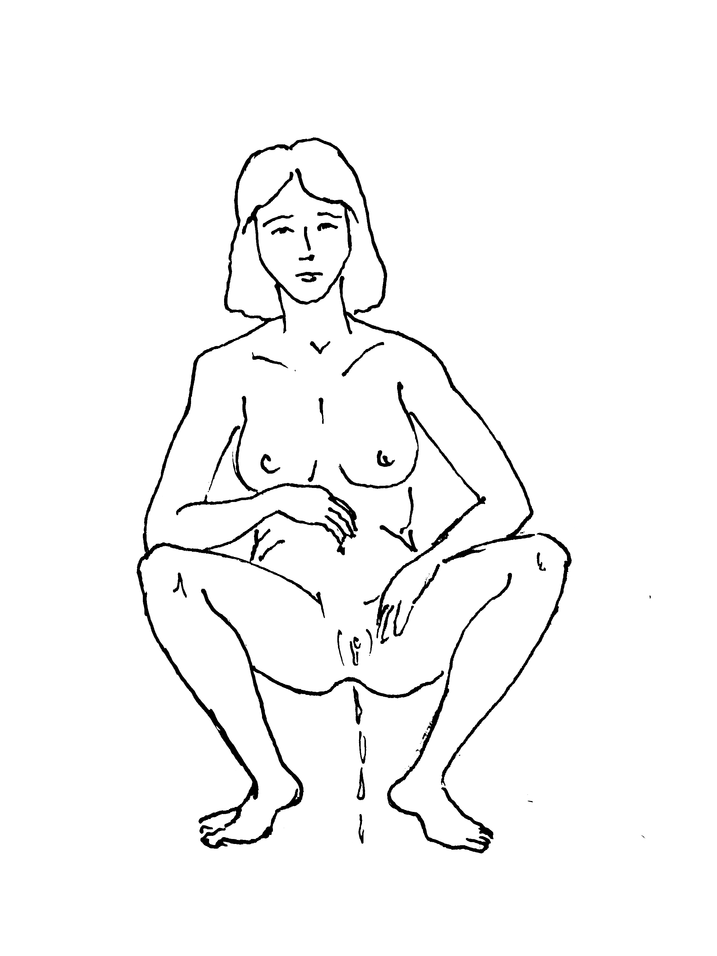 Drawing depicting human female urination